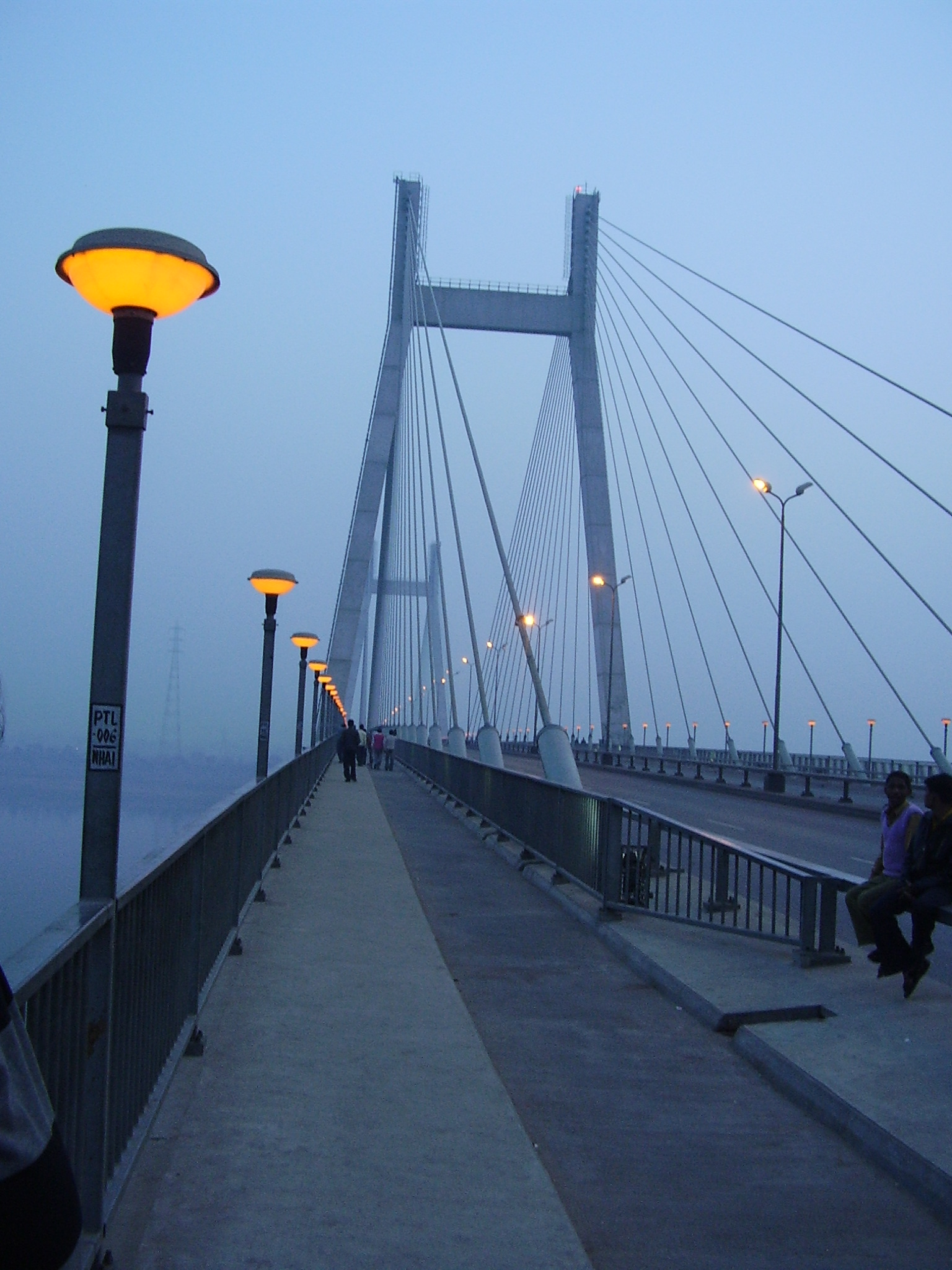 This Cable-Stayed four lane road bridge on Yamuna river in Allahabad figures among some largest constructions of India.